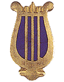 Band member badge, Japan Maritime Self Defense Force.